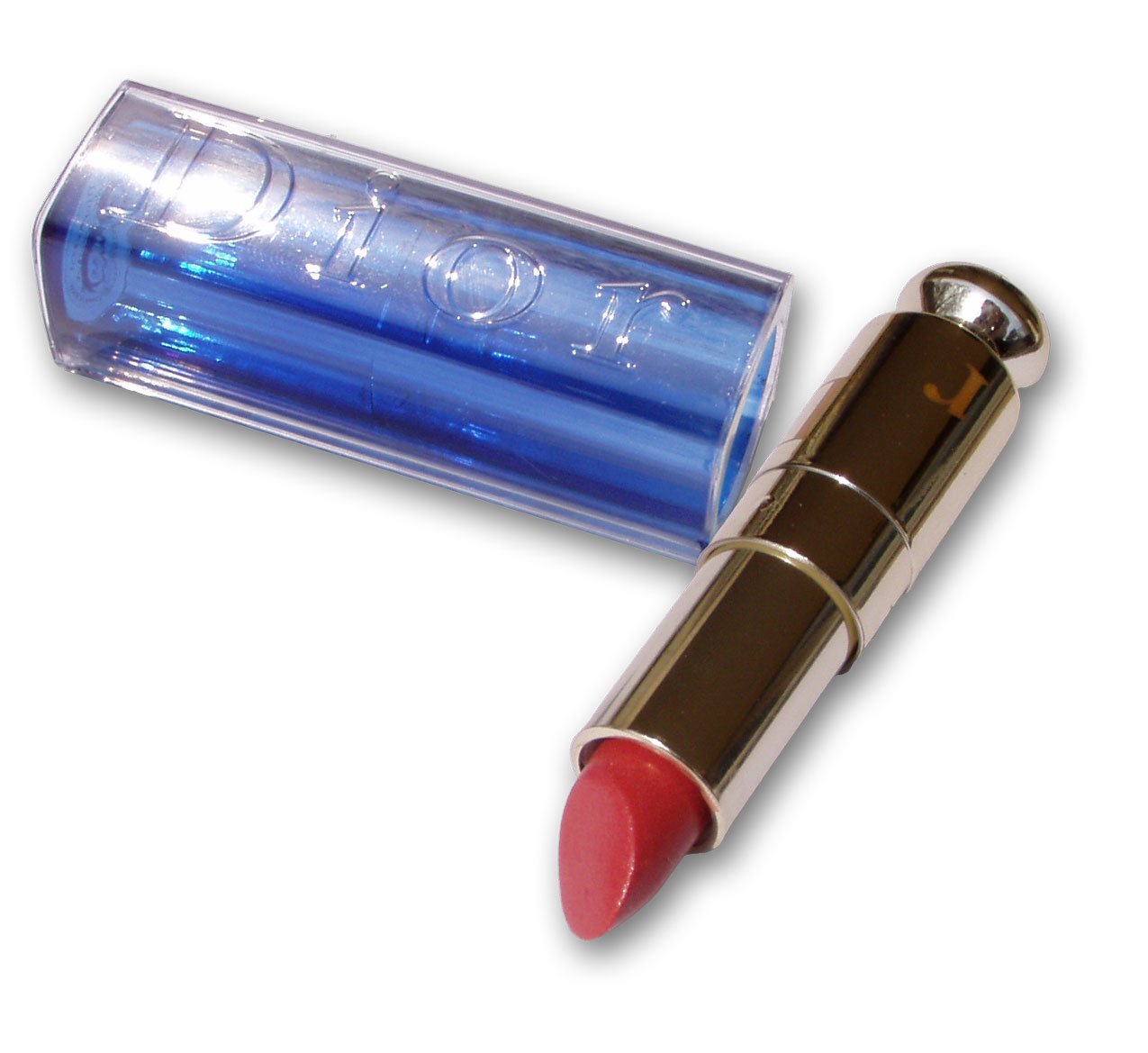 A Dior Lipstick